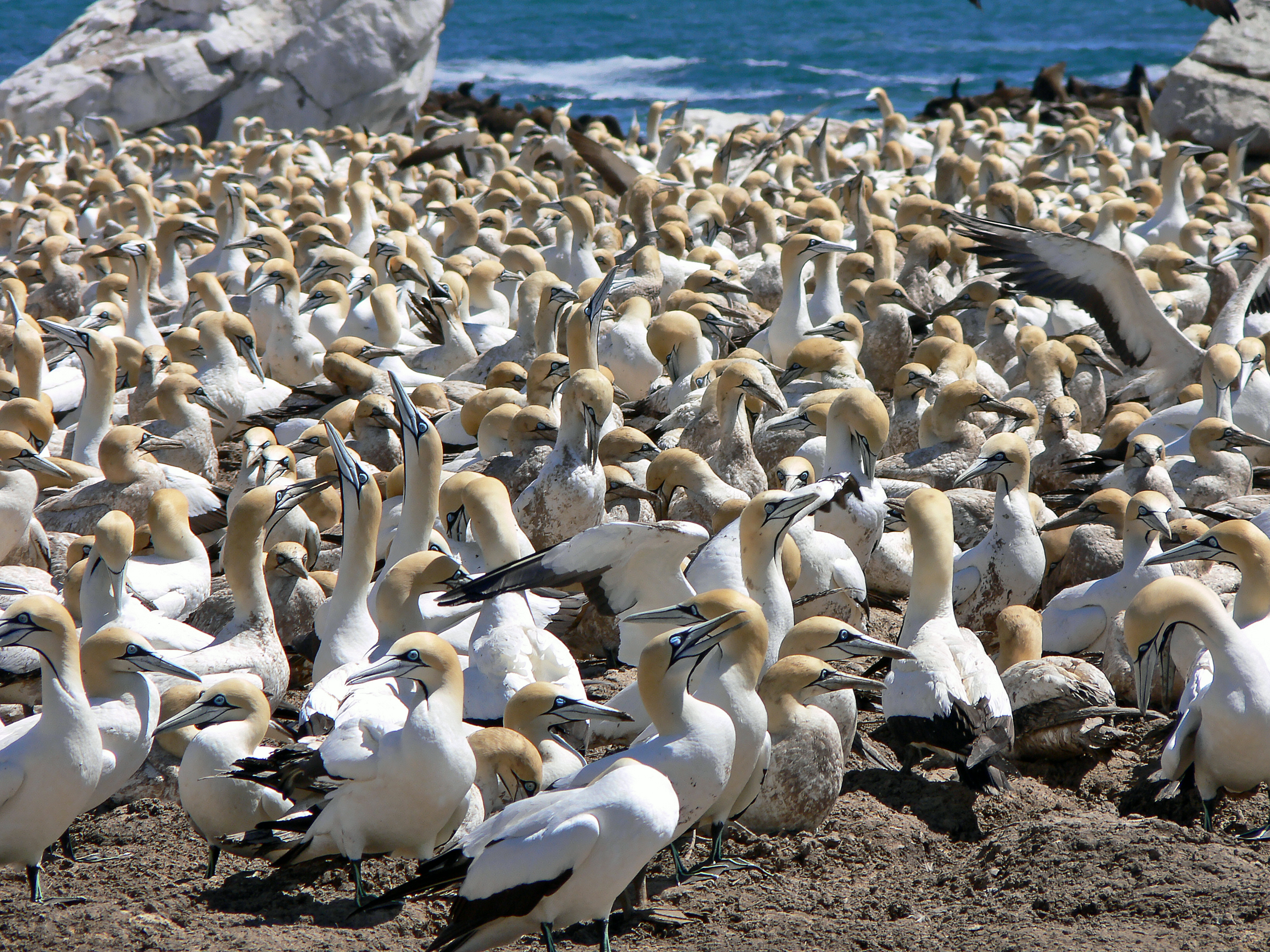 Cape Gannet (Morus capensis), Birds Island, Lamberts Bay, Western Cape, Southafrica